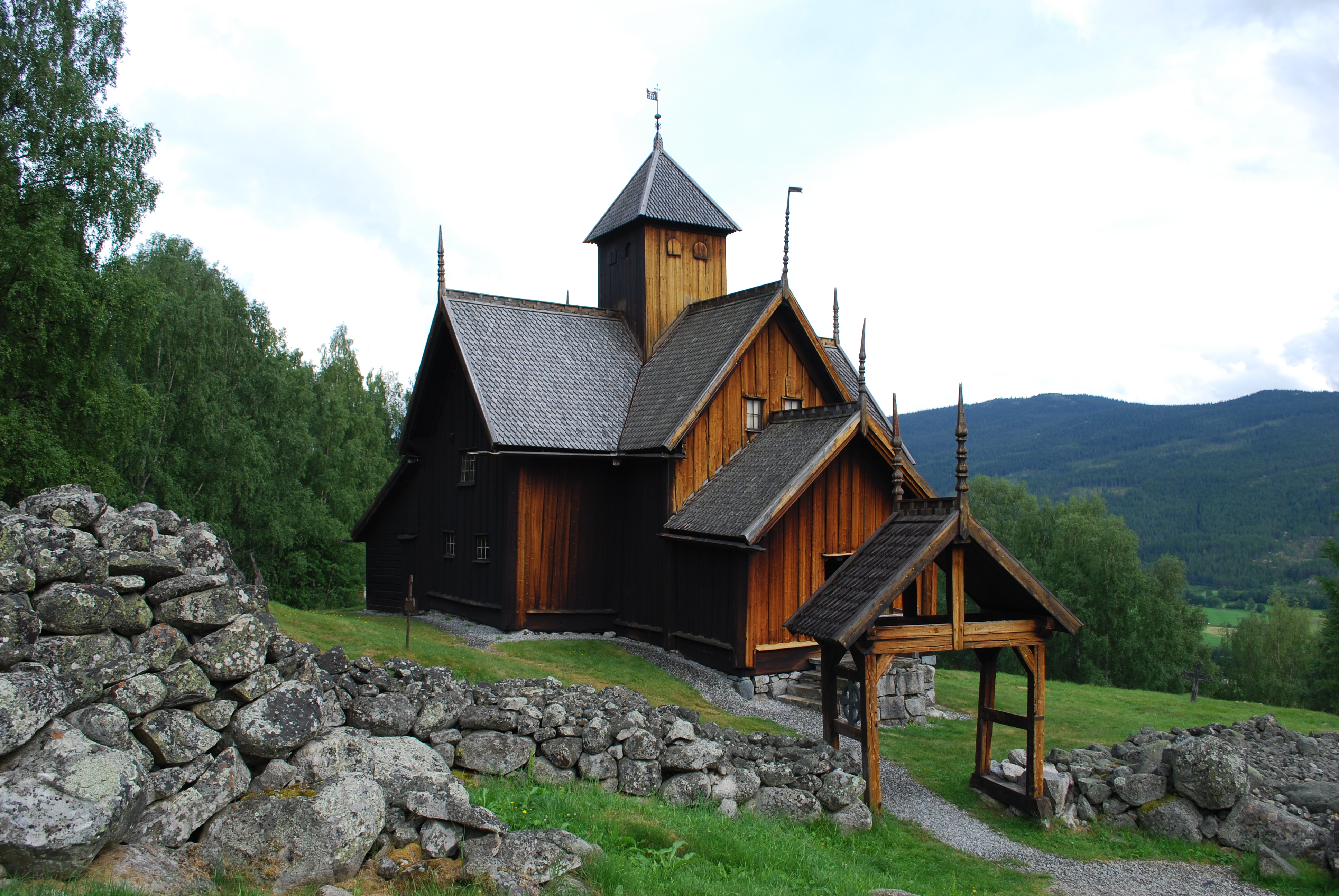 General view of Uvdal stave church